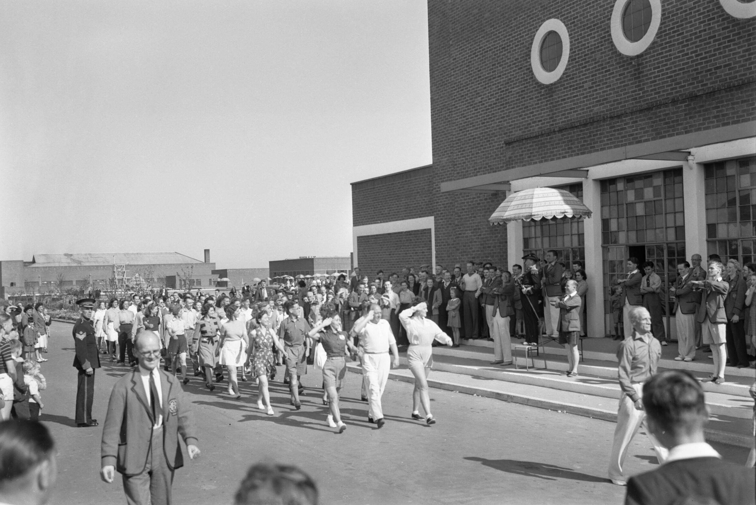 Holiday Camp Gets Going Again- Everyday Life at a Butlin's Holiday Camp, Filey, Yorkshire, England, UK, 1945 In the sunshine, campers stage a march past and salute the 'Lord High Admiral of the Filey Swimming Pool' (standing on a chair under an umbrella or parasol) during a morning Physical Training session at Butlin's Holiday Camp, Filey. PT is popular with the campers and is led by Captain Bond, an ex-Army PT instructor. According to the original caption, "it is part of the fun that such eminent personages as the Admiral, or a comic Roman Centurion, or the King of the Cannibal Isles takes the salute each morning".